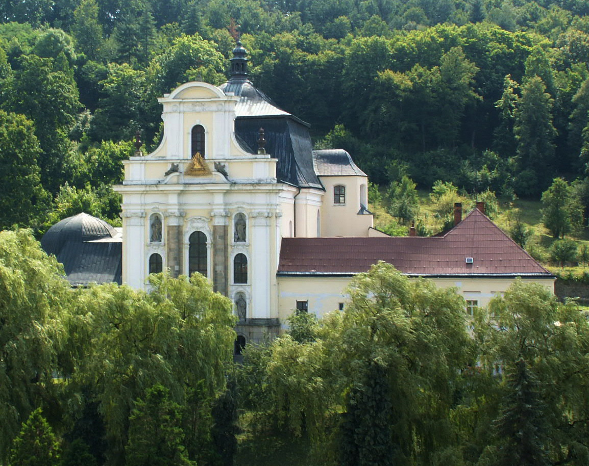 Most Holy Trinity Church in Fulnek, Czechia.